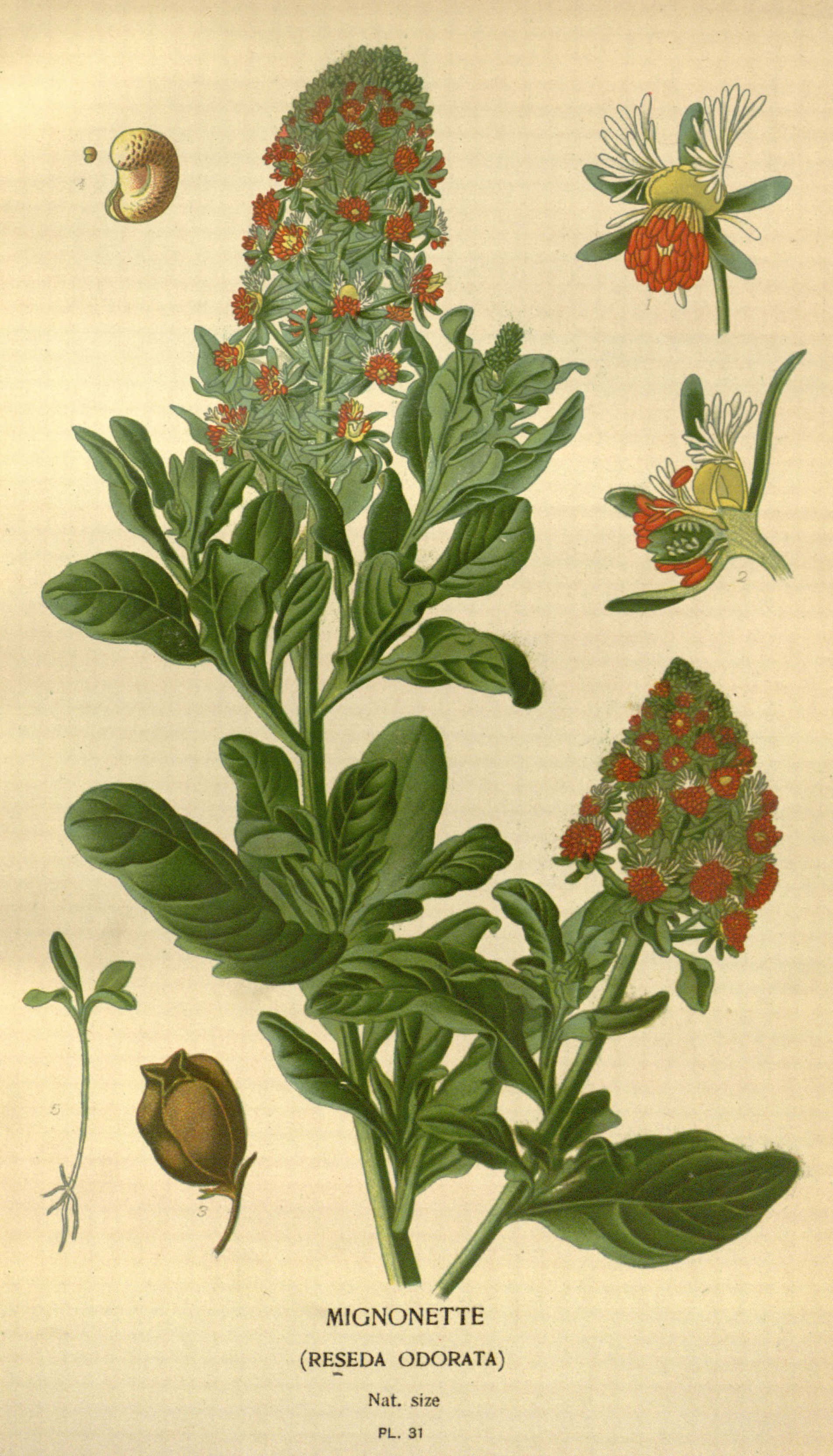 Mignonette Plate No. 31, from Favourite flowers of garden and greenhouse or Favourite flowers of garden and greenhouse by Edward Step, F.L.S. the cultural directions edited by William Watson F.R.H.S. Assistant Curator, Royal Gardens, Kew; illustrated with three hundred and sixteen coloured plates, selected and arranged by D. Bois Assistant chaire de culture au Museum d'Histoire Naturelle de Paris., Vol 1